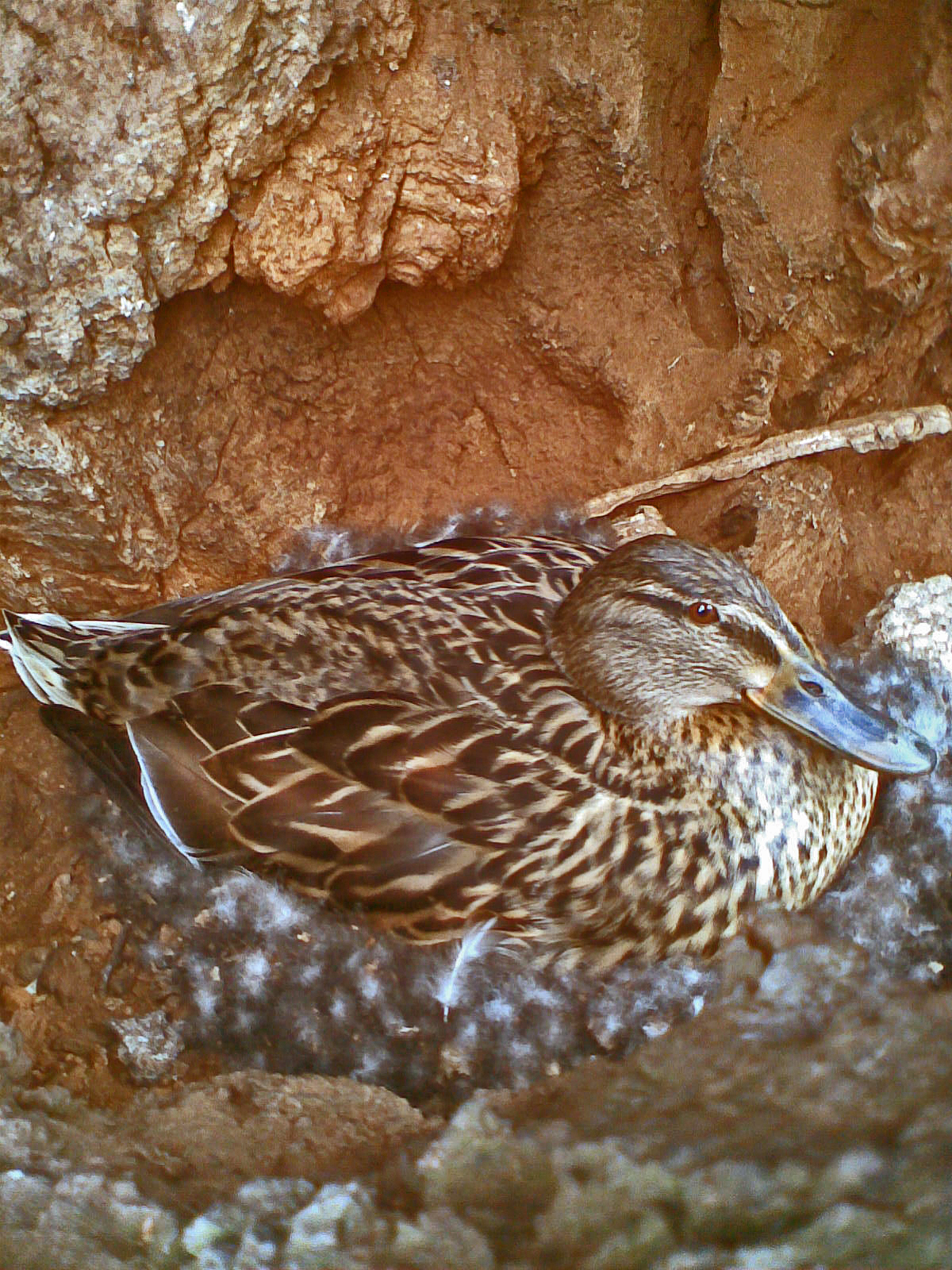 Broody mallard sitting on her clutch in an oak tree, 15' above the ground. Lower Brockhampton, Herefordshire, England.